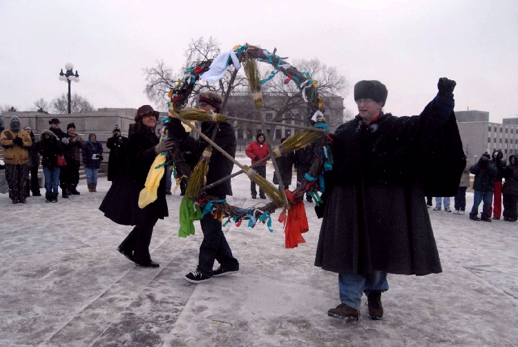 Wiccan event in the US. Own work by Ycco.